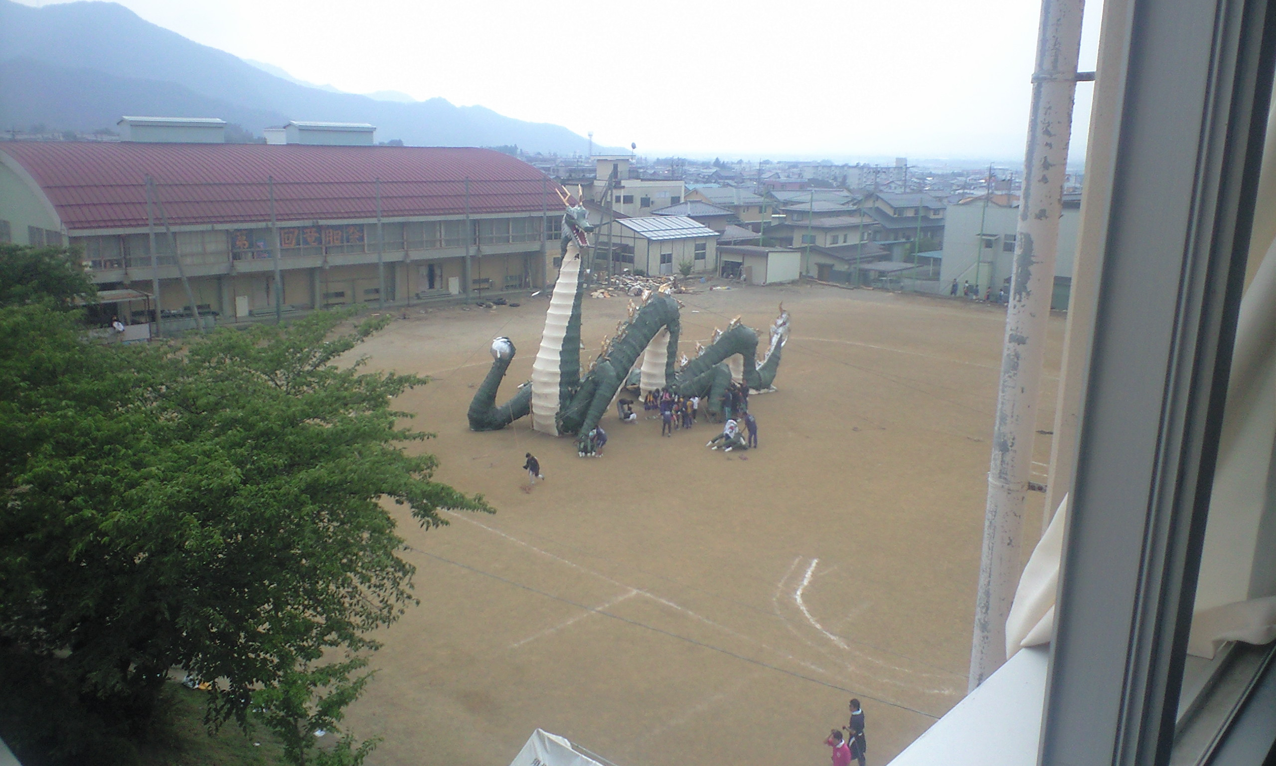 This doragon was made by Suzaka high school students.